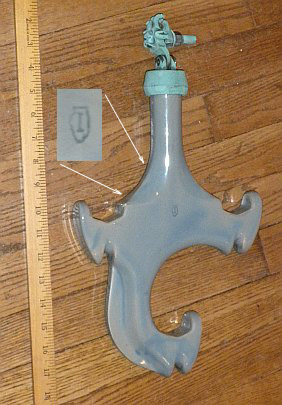 An insulator used on 3 phase 13.8KV (phase to phase) distribution